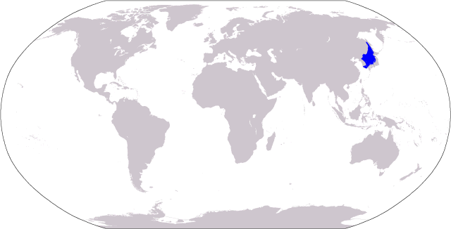 World map: Sea of Japan (East Sea) (location)